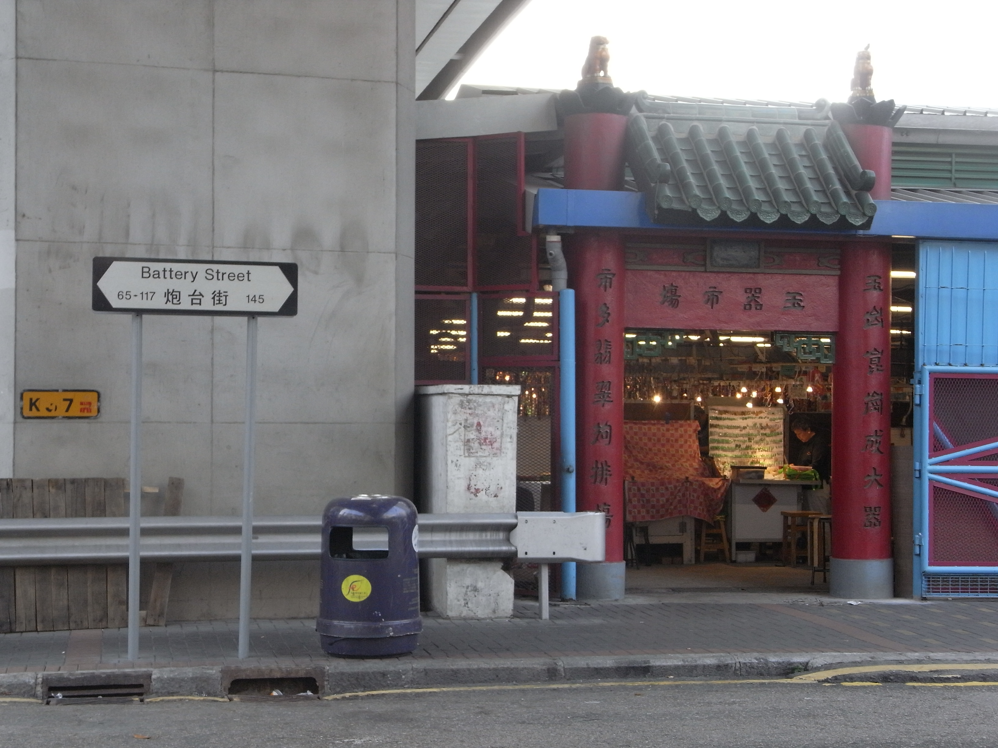 油麻地 炮台街 油麻地玉器小販市場